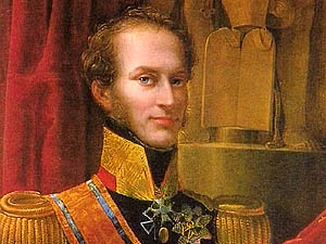 Portrait of the dutch King Willem I (1772-1843)